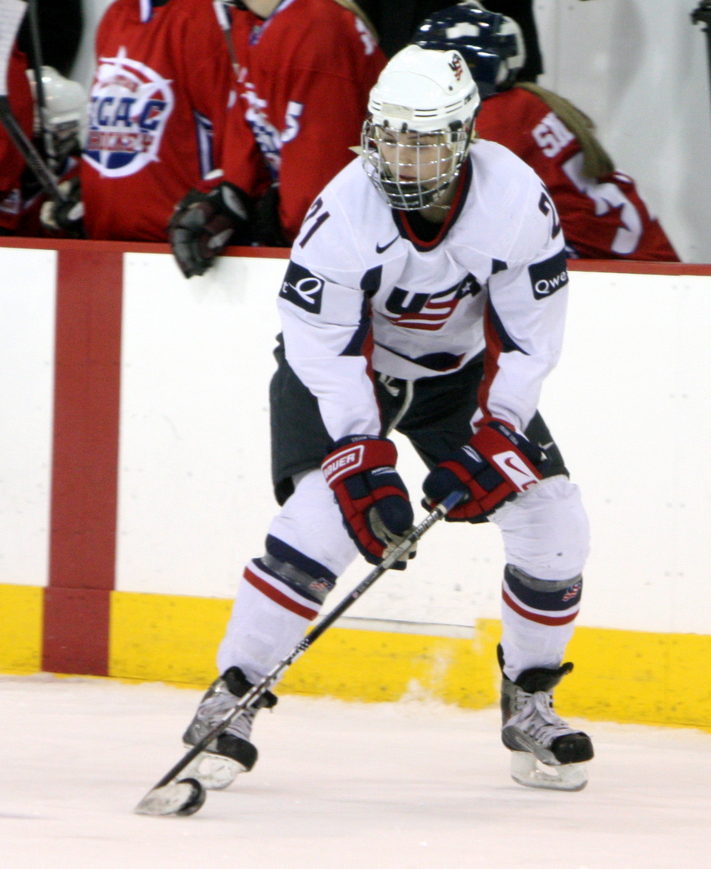 United States forward Hilary Knight in a game against the ECAC All-Stars on January 3, 2010.